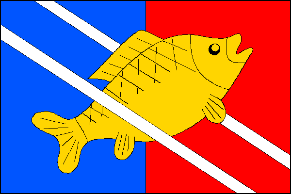 Municipal flag of Dolní Třebonín village, Český Krumlov District, Czech Republic.